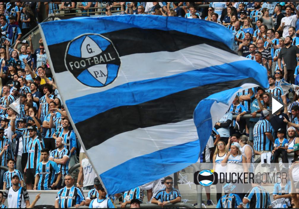 BANDEIRA TJG GREMIO